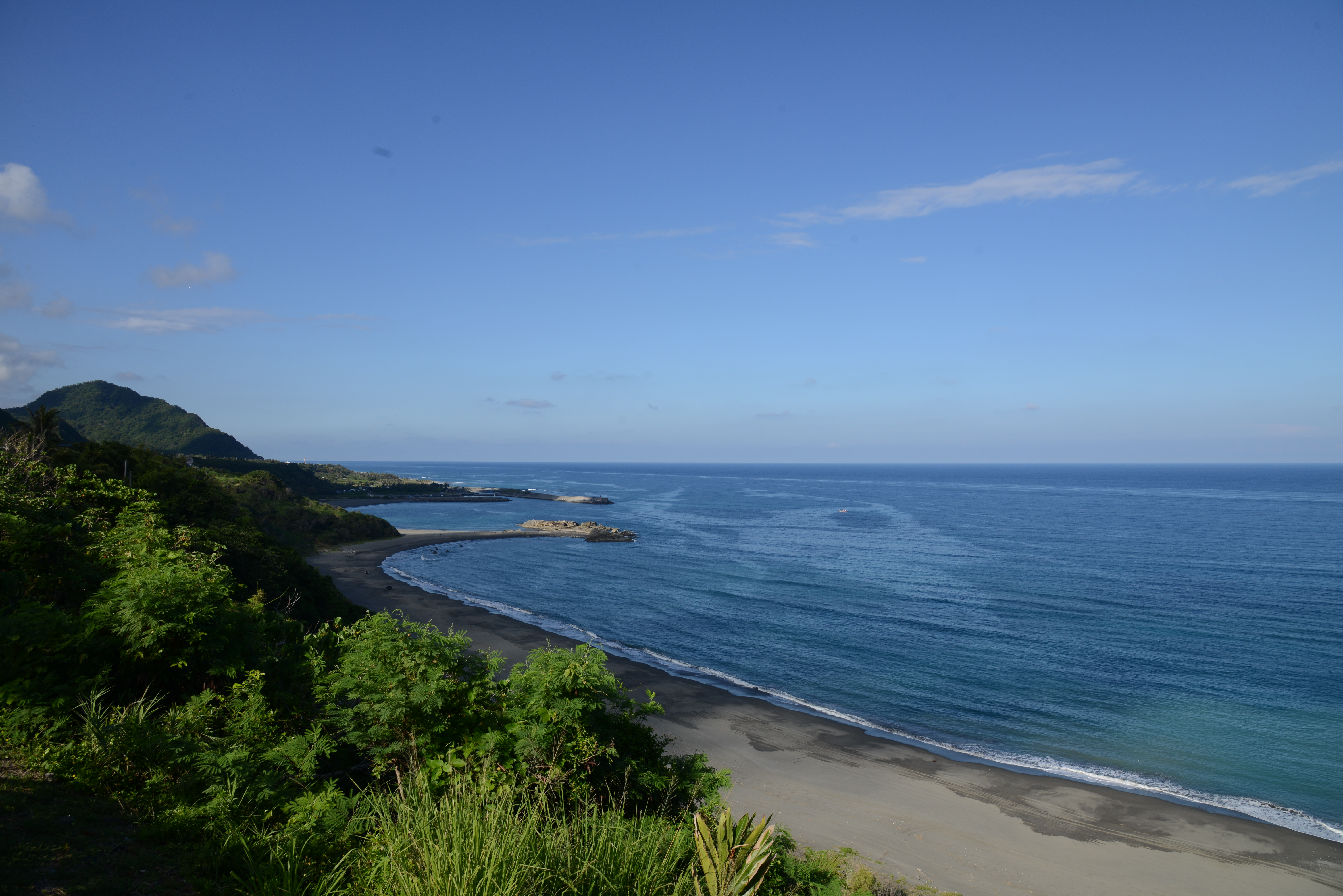 Seascape looking towards Jinzun on a sunny day in August.